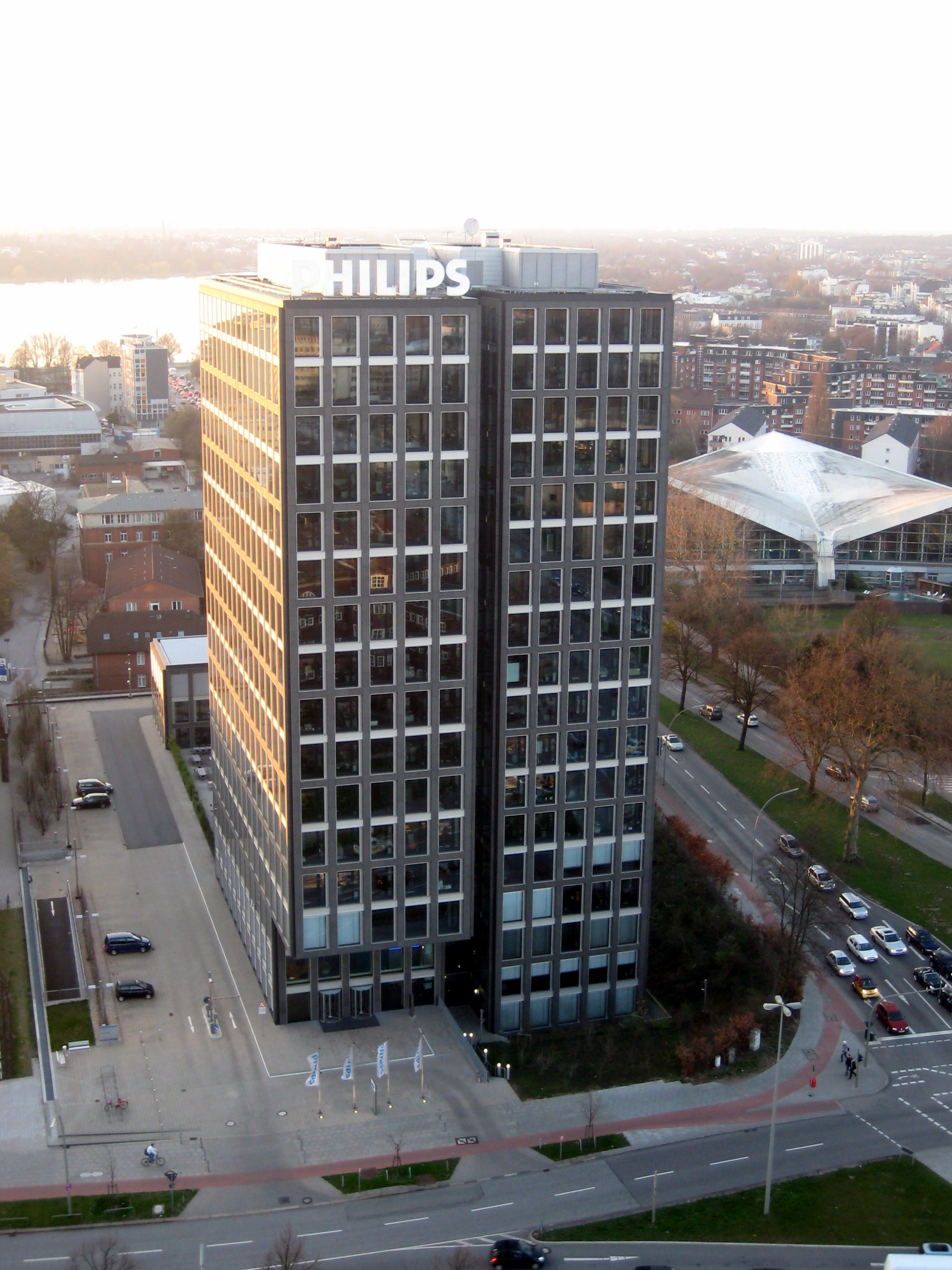 Philips-Headquarters in Hamburg, Germany. Photo from the roof of the University of Applied Sciences, Hamburg.